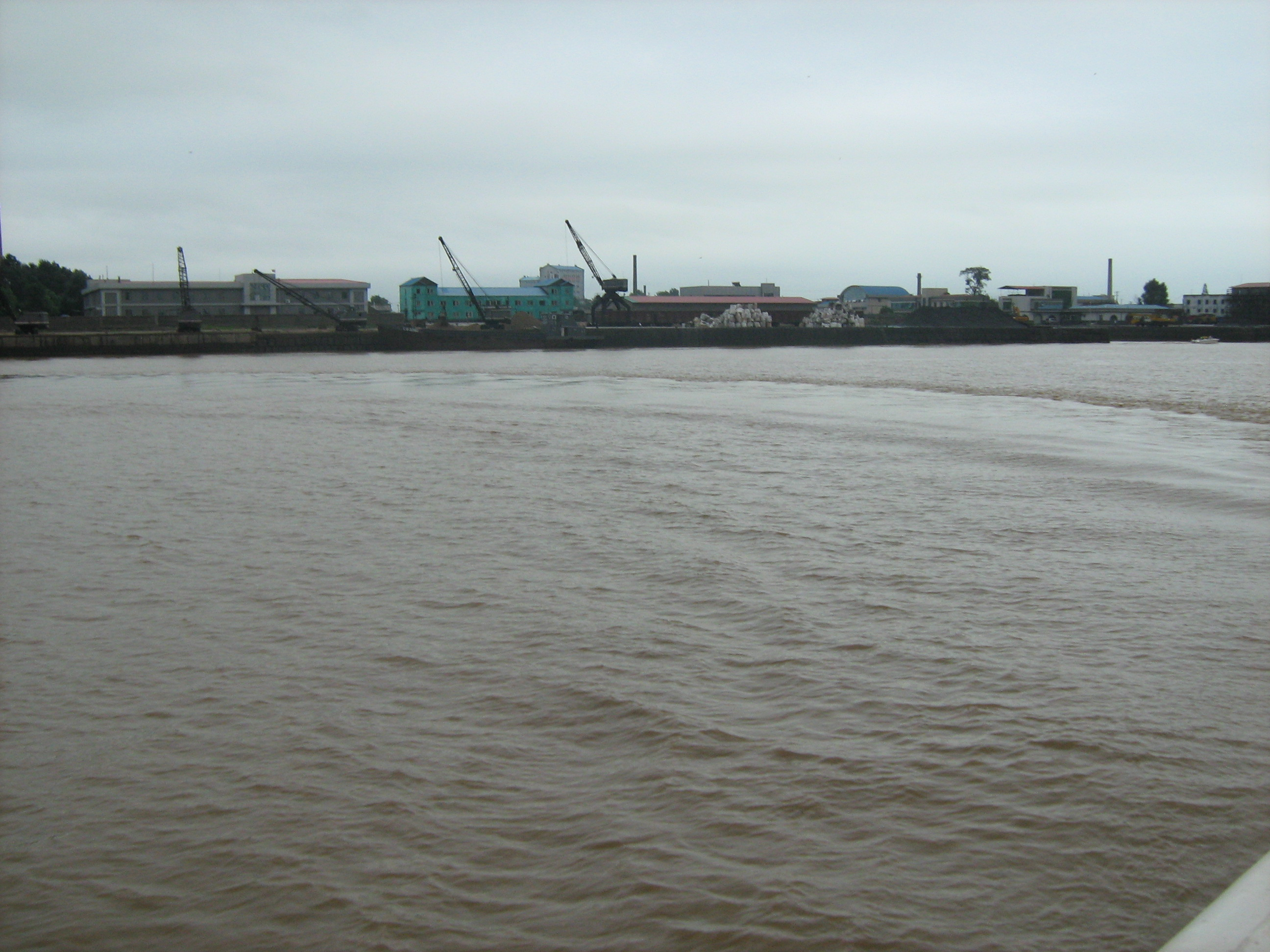 This shows the waterfront at Sinuiji, North Korea, on the Yalu River.